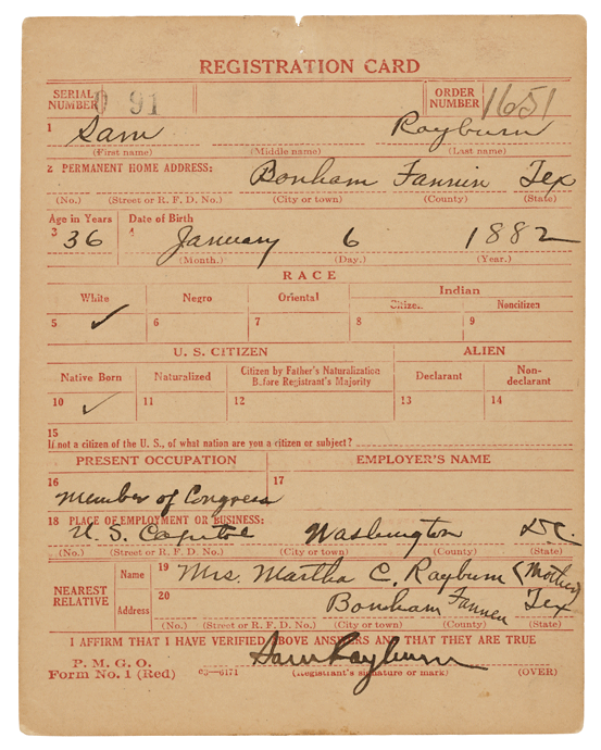 Scope and content: The draft registration card of Sam Rayburn indicates that he served as a member of the U.S. Congress for the State of Texas.